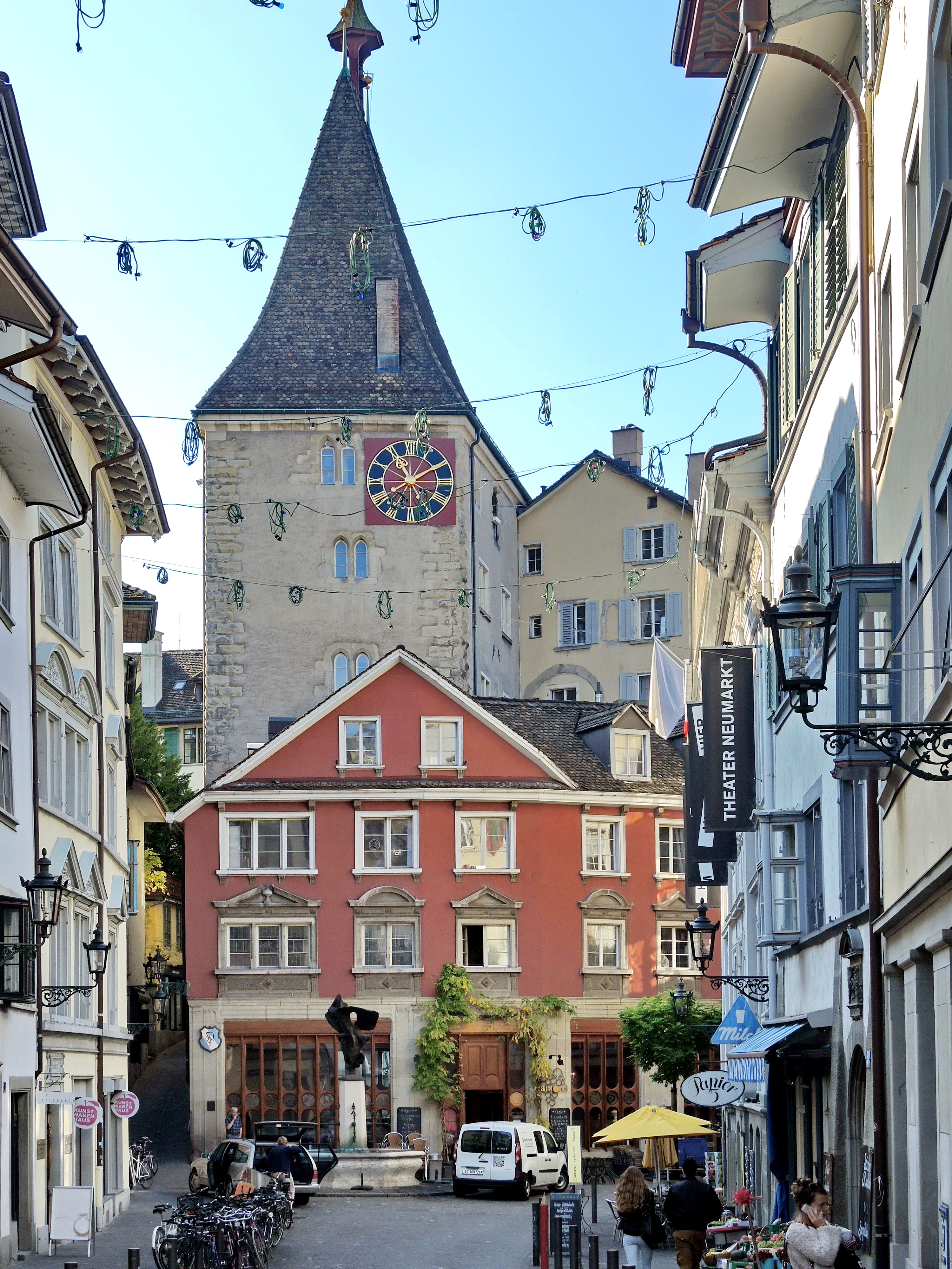 Grimmenturm and Theater to the right, Neumarkt in Zürich (Switzerland)